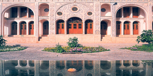 Tabatabaei House, Iran. early 1800s. Photo is taken by Zereshk, who presented a report on the house in Knoxville TN, at an Architecture conference in 2004.